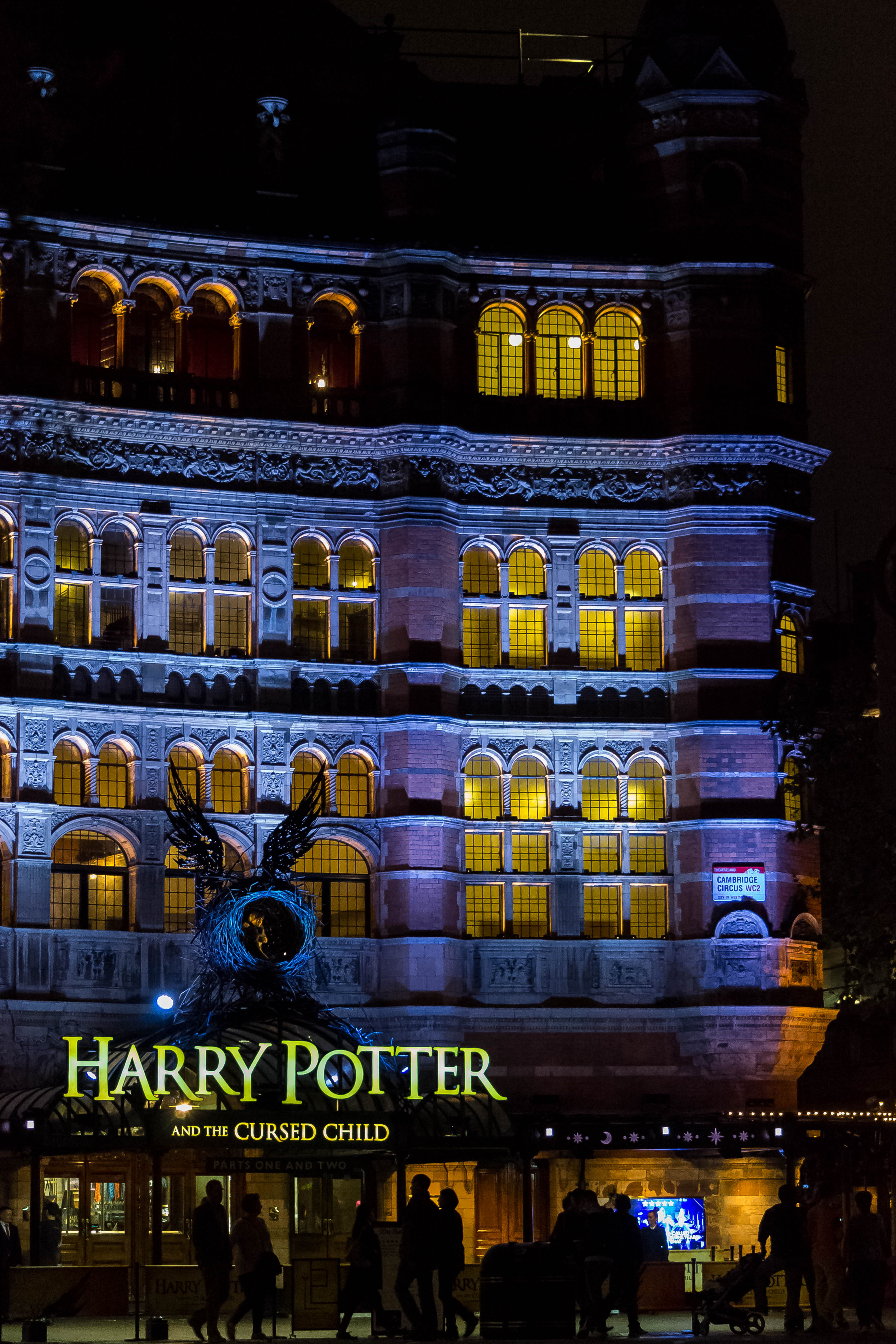 Palace Theatre Wikidata has entry Q4592132 with data related to this item.